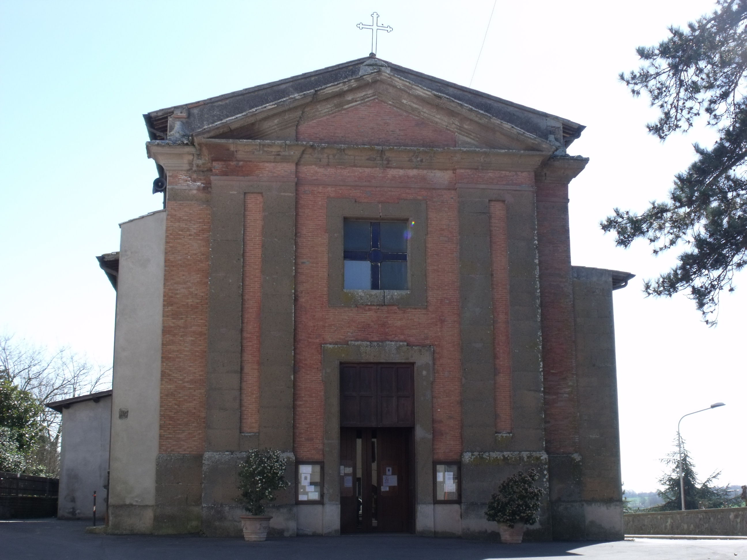 Church of San Pancrazio in Castel Giorgio, Province of Terni, Umbria, Italy